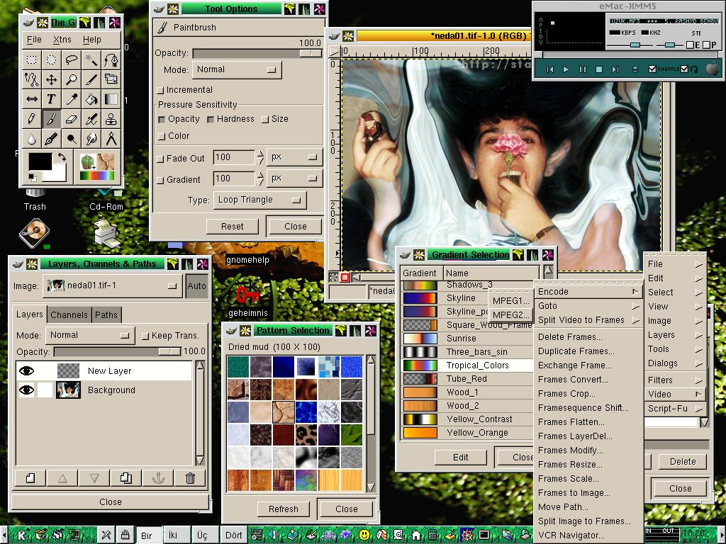 Gimp Snapshot